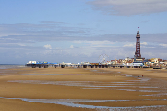 Central Pier, Blackpool